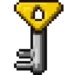 A key in video game (NewtonAdventure), by devnewton